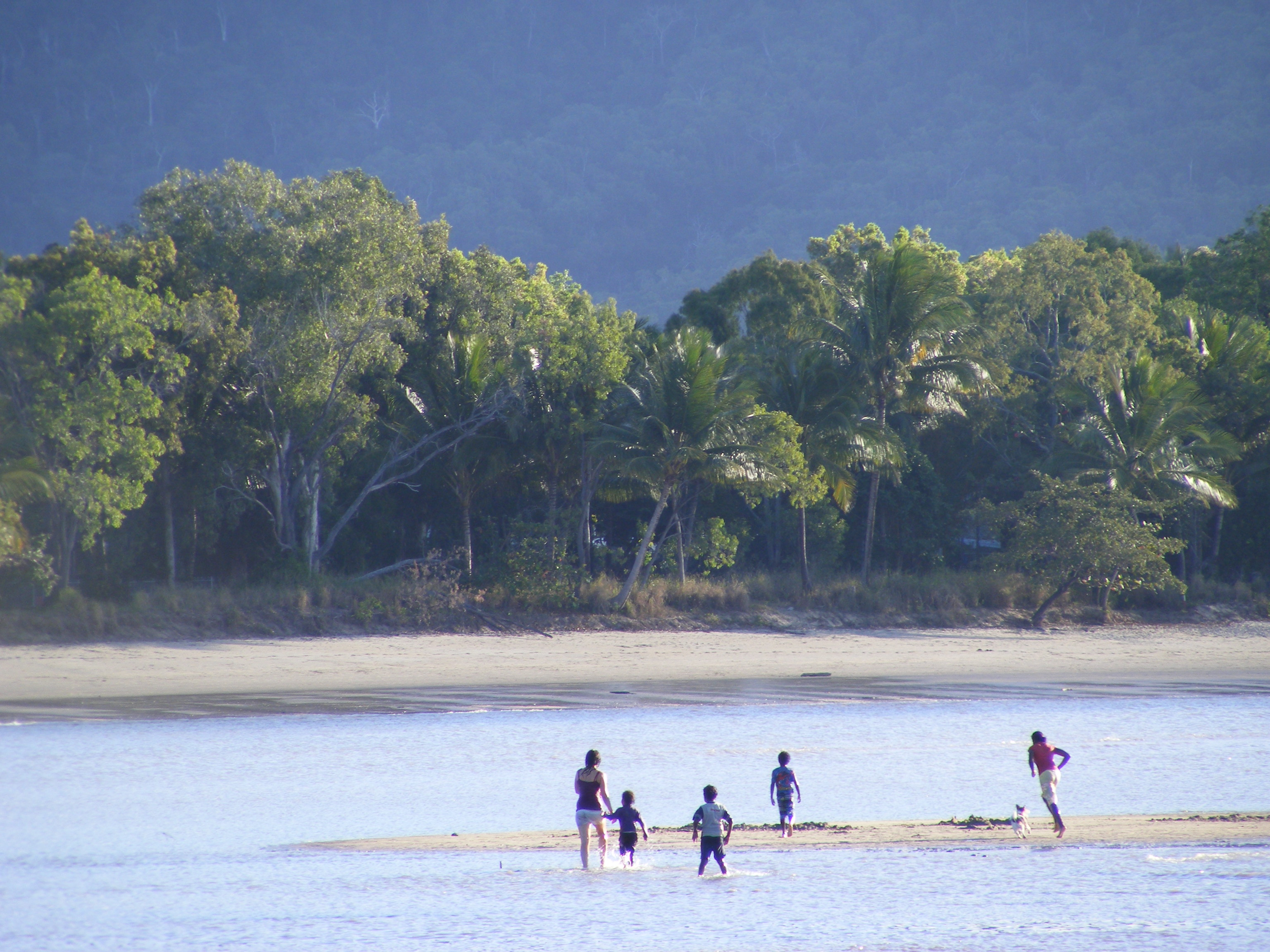 Children playing on the beach, Cairns, Australia.